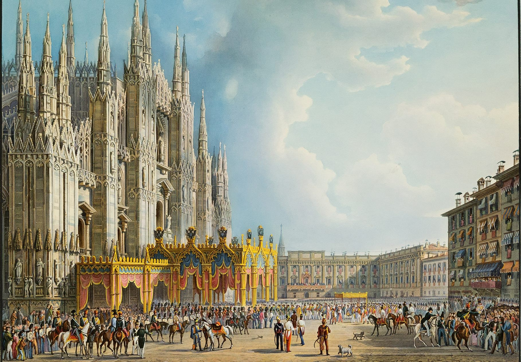 Design for crowning Ferdinando I of Austria by Sanquirico